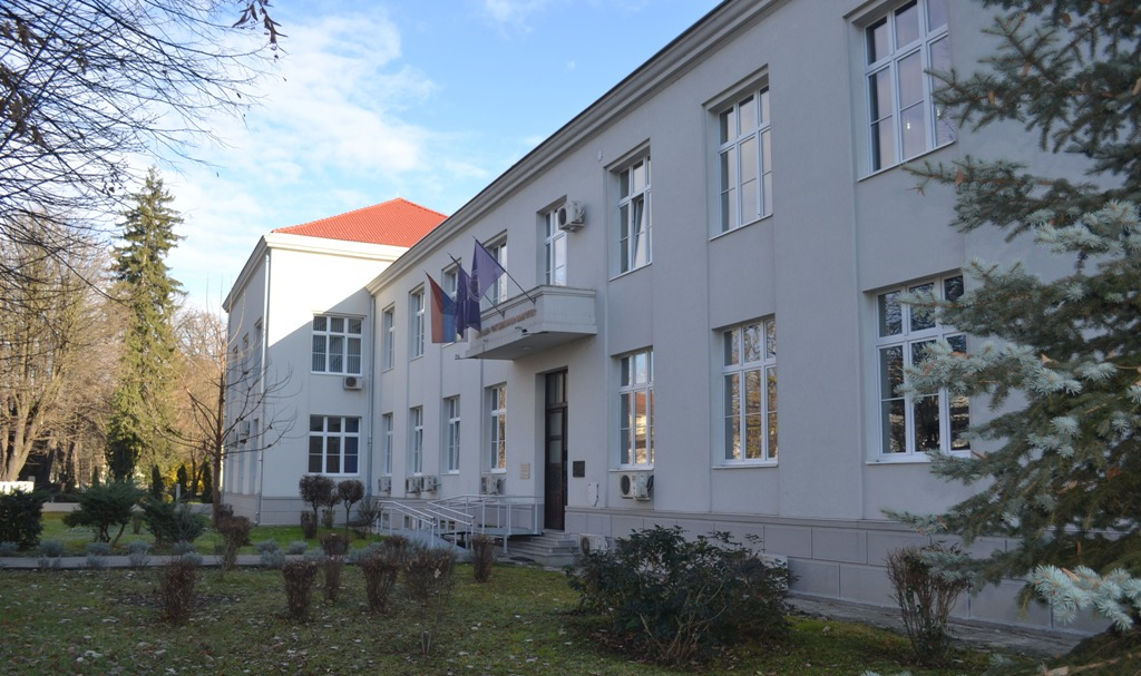 ПМФ зграда - поглед из парка